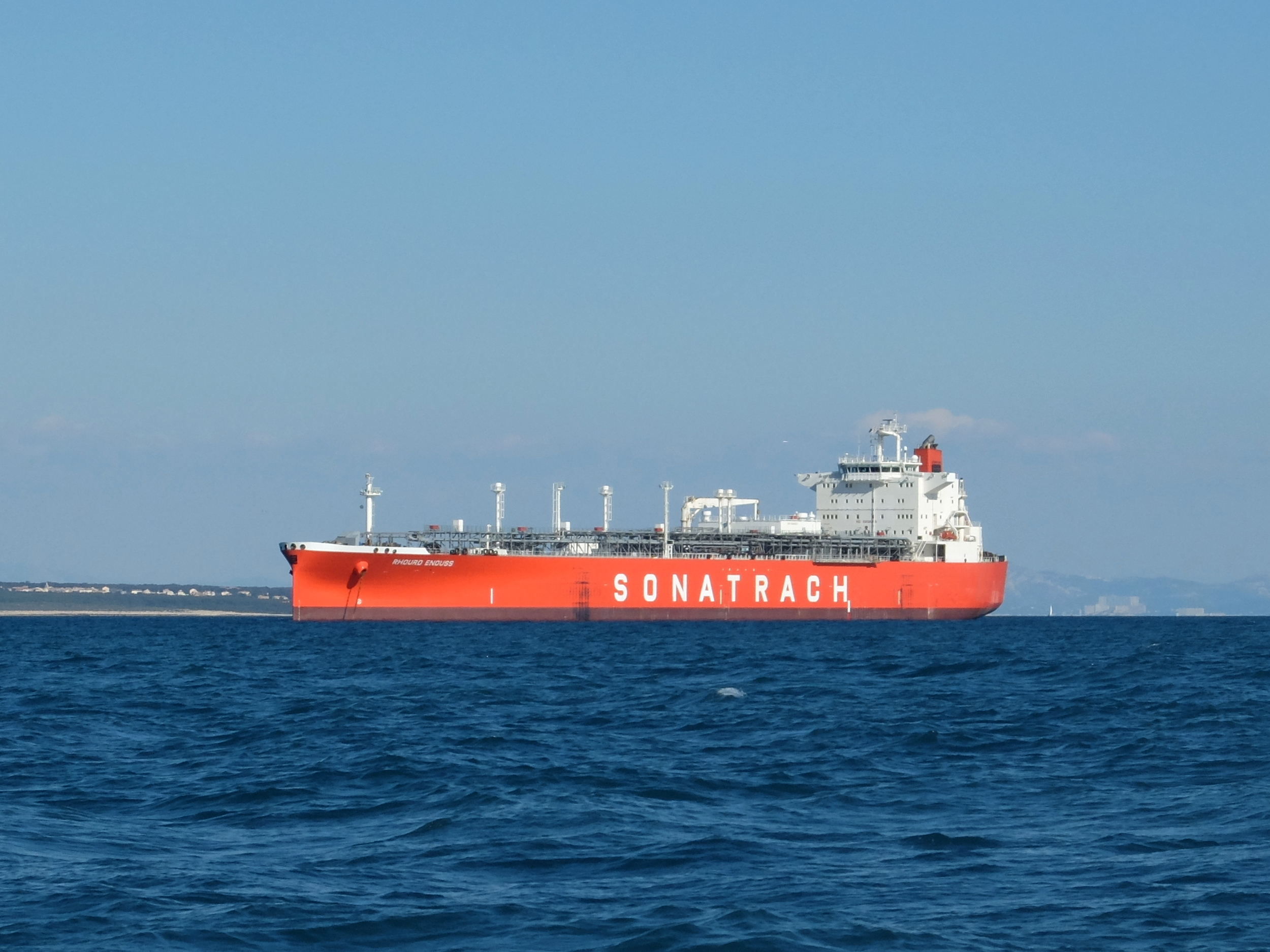 LPG Tanker Rhourd Enouss anchored at Fos-sur-Mer, France, on April 6th, 2015